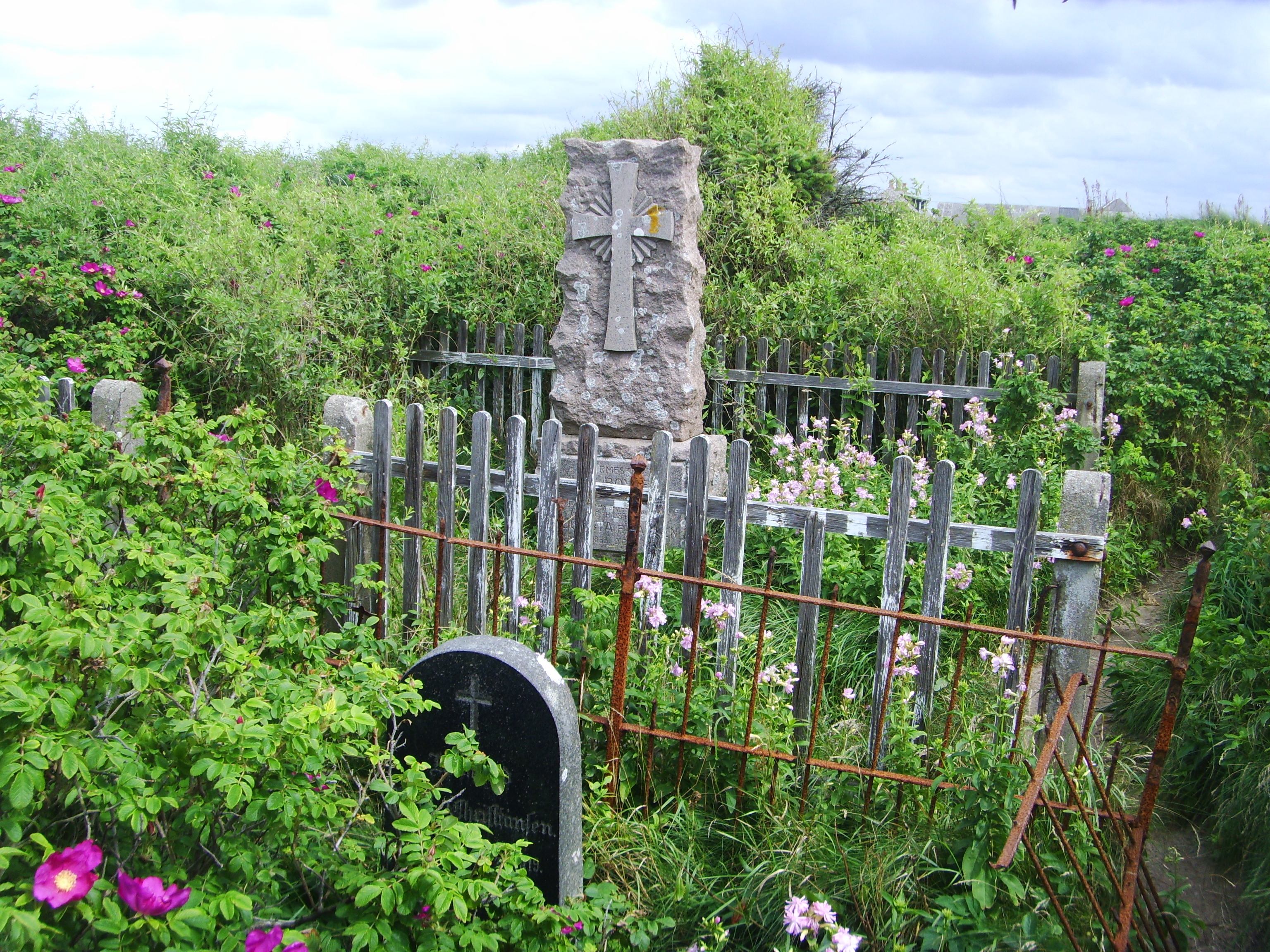 Mårup church in Lønstrup, Denmark.